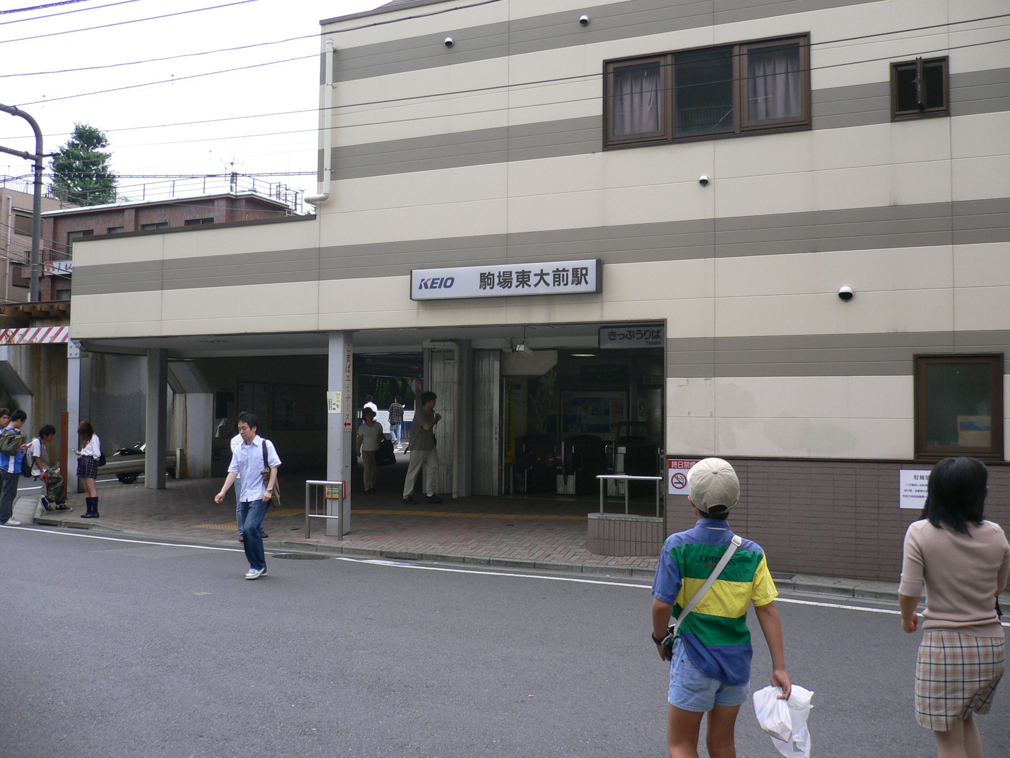 Komabatodaimae Station (駒場東大前駅), Meguro W, Tokyo M.